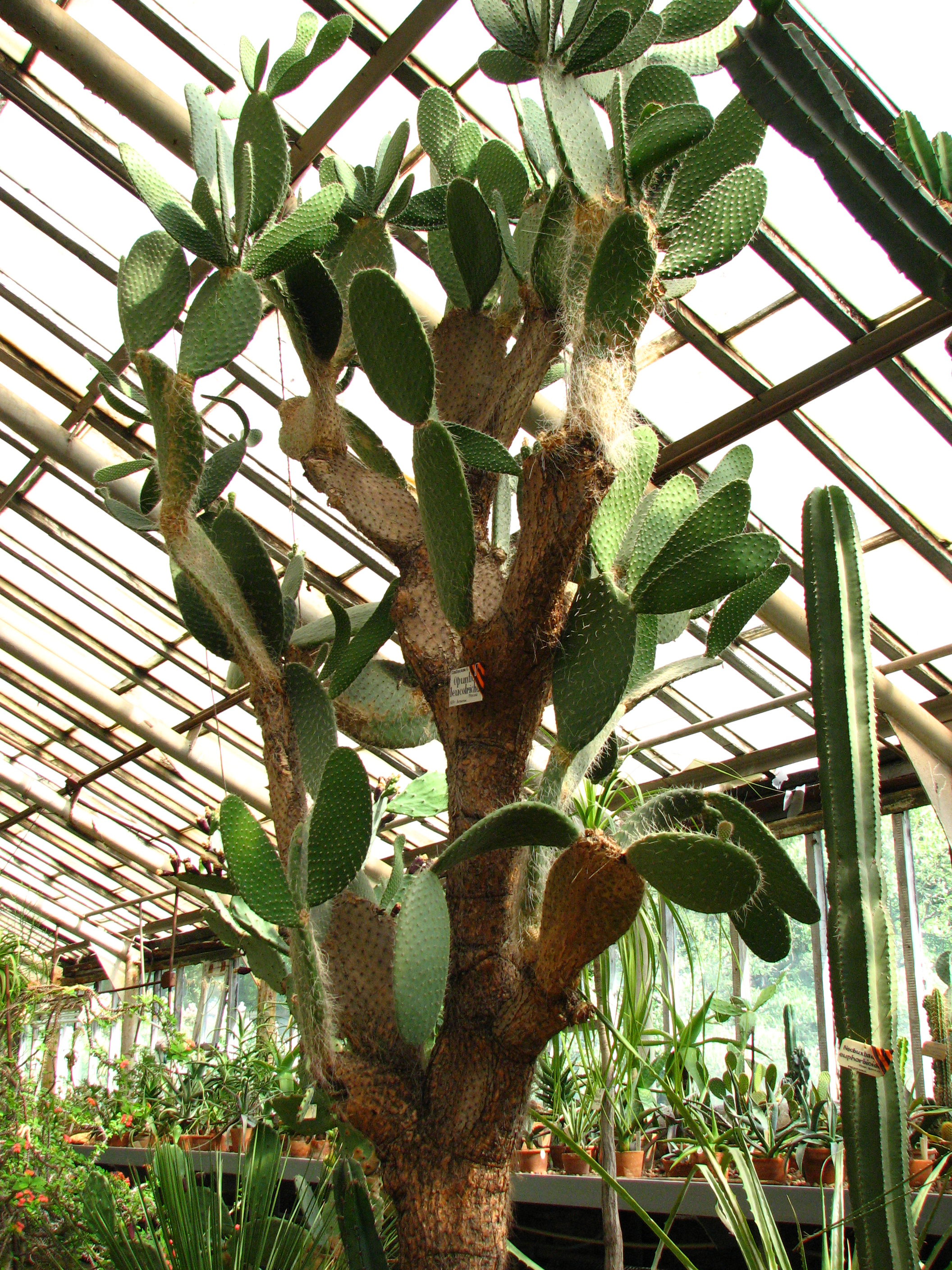 Greenhouses of the Botanical garden (Saint Petersburg). Age of a plant of 80 years..